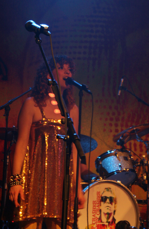 Helena Josefsson, Swedish singer and back-vocalist @ Per Gessle's Party Crasher Tour 2009 in Cologne